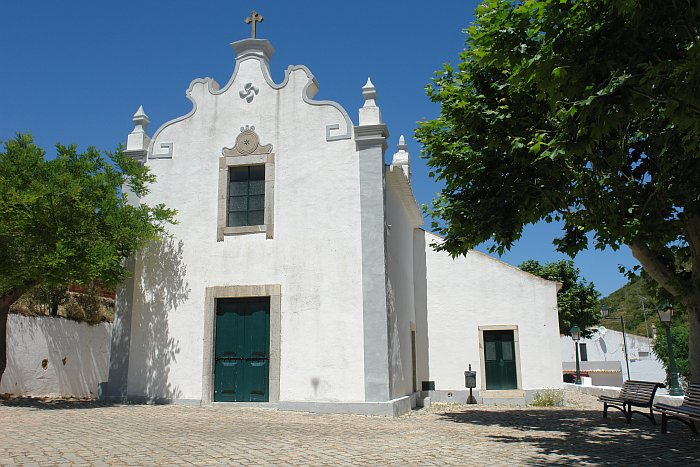 The small Chapel of Saint Louis is located on Largo de São Luiz within the village of Alte which is within the municipality of Loulé, Algarve, Portugal.